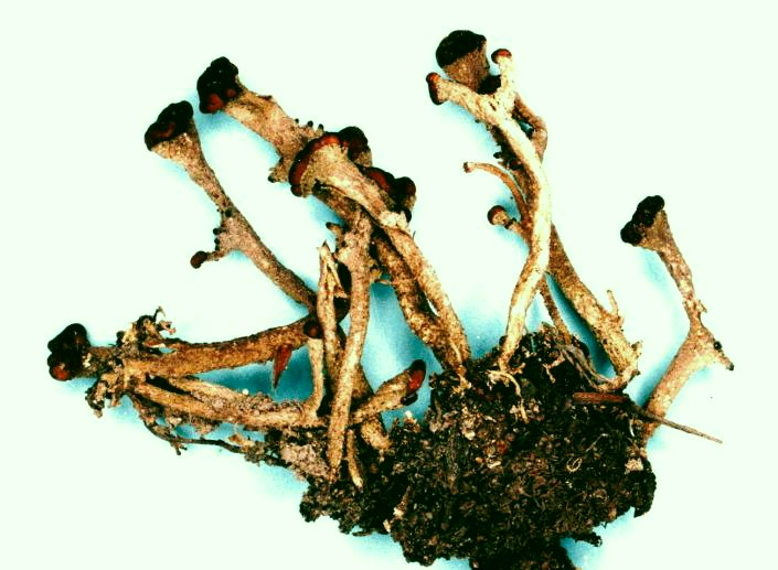 Cladonia rei Schaerer, 1823 [Synonyms: Cladonia subulata (L.) Weber ex F.H. Wigg., 1780 (see Spier & Aptroot 2007) Cladonia nemoxyna (Ach.) Arnold, 1888] (photograph of a herbarium specimen) Growing on soil of an old apple orchard at the Maryland Ornithological Society Sanctuary at Carey Run, 3.5 miles WNW of Frostburg, Garrett County, Maryland, USA; collected and identified by B. Ball and A. Norden (Cladonia nemoxyna, No. L-74, 1 Jan 1973), annotated by Allen C. Skorepa; specimen is now in the Lichen Herbarium of the New York Botanical Garden.